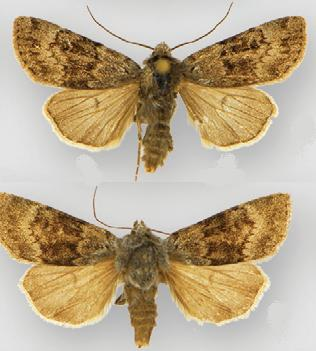 Euxoa apopsis male (top) female (bottom)